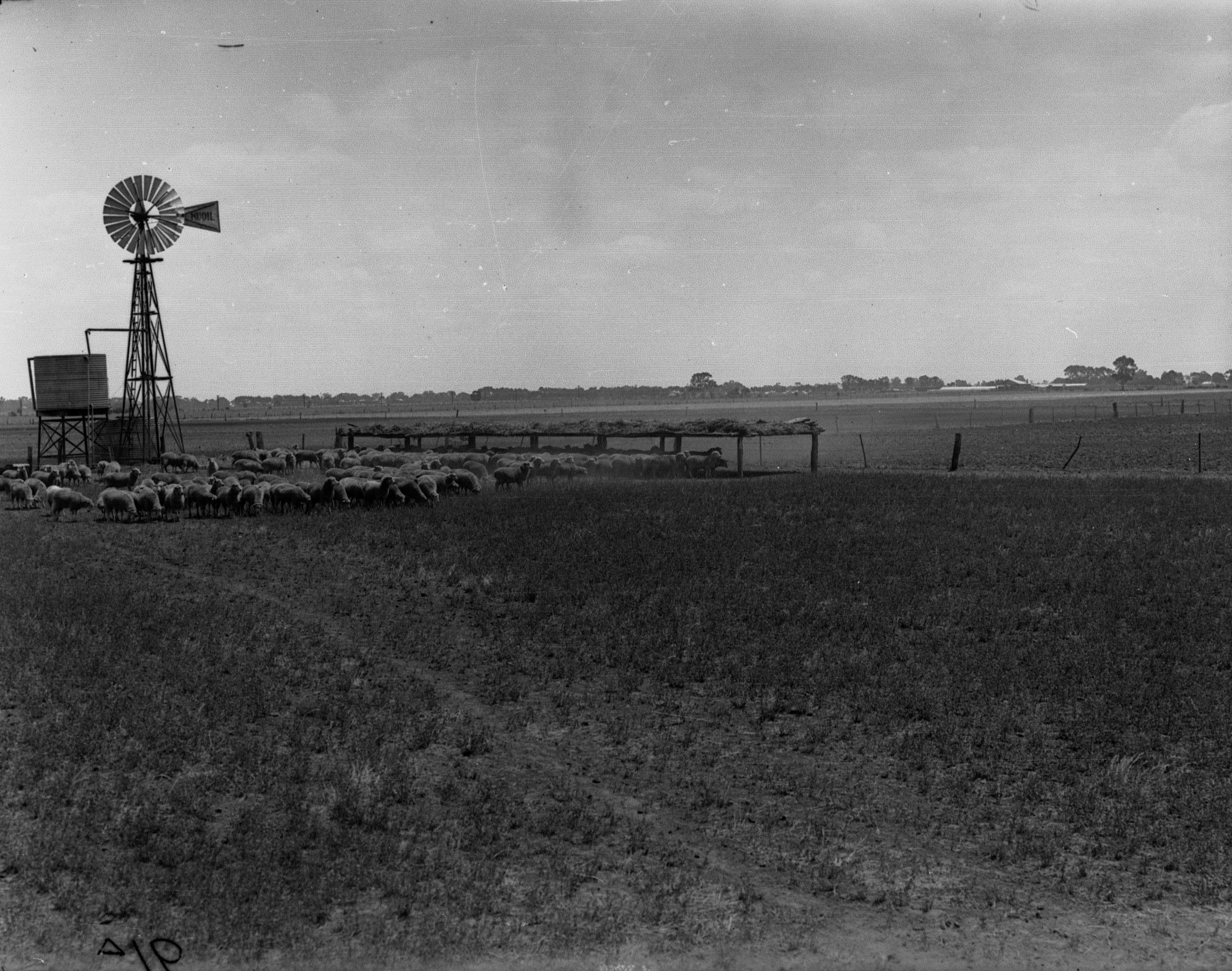 Index 90A says: Virginia - Title amended to reflect G Brooks' notes